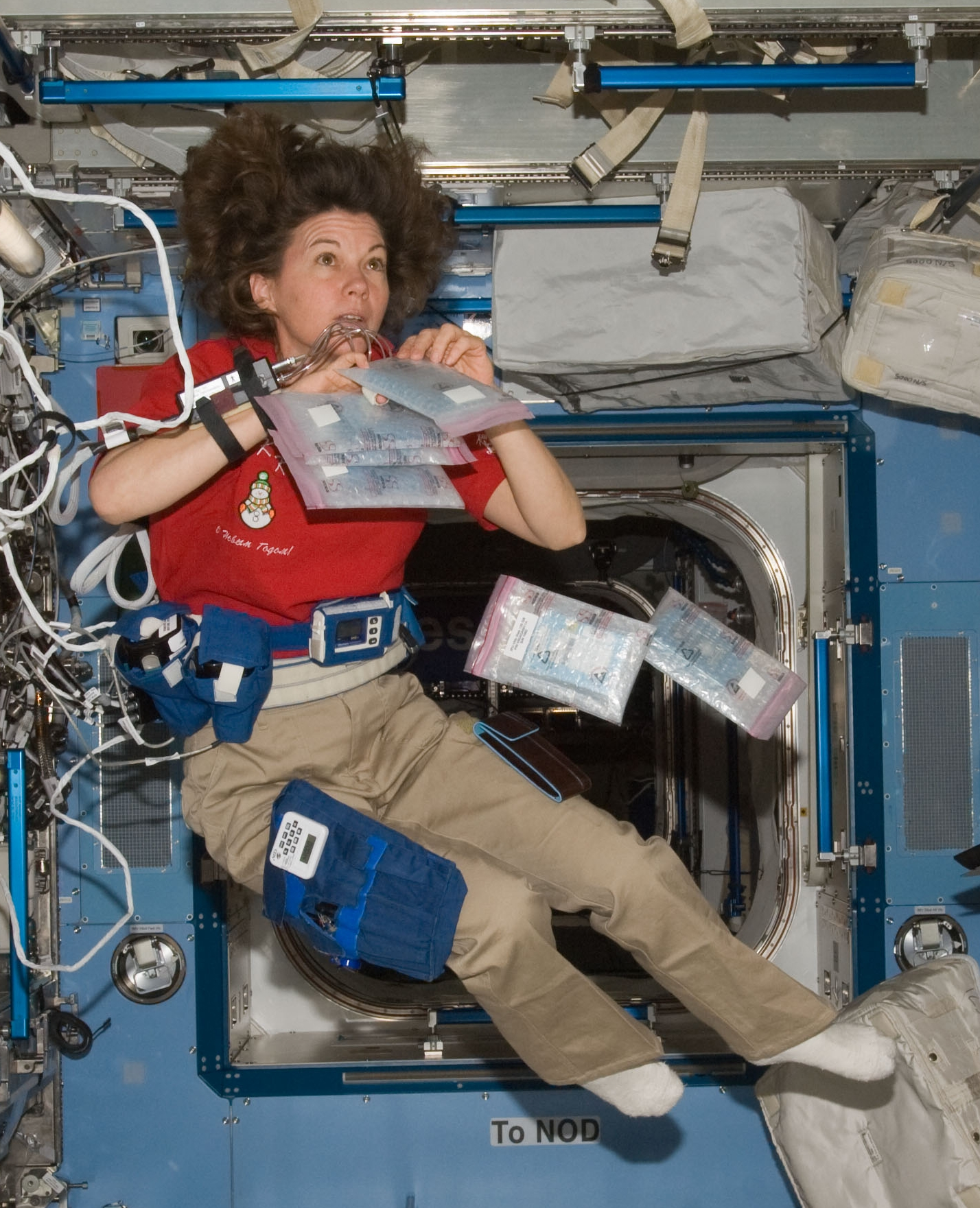 NASA astronaut Catherine (Cady) Coleman, Expedition 26 flight engineer, participates in the ambulatory monitoring part of the Integrated Cardiovascular (ICV) assessment research experiment in the Kibo laboratory of the International Space Station. Coleman is wearing electrodes, a Holter Monitor 2 (HM2) for recording Electrocardiogram (ECG), a European Space Agency (ESA) Cardio pressure / Blood Pressure unit to continuously monitor blood pressure and two Actiwatches (hip/waist and ankle) for monitoring activity levels.